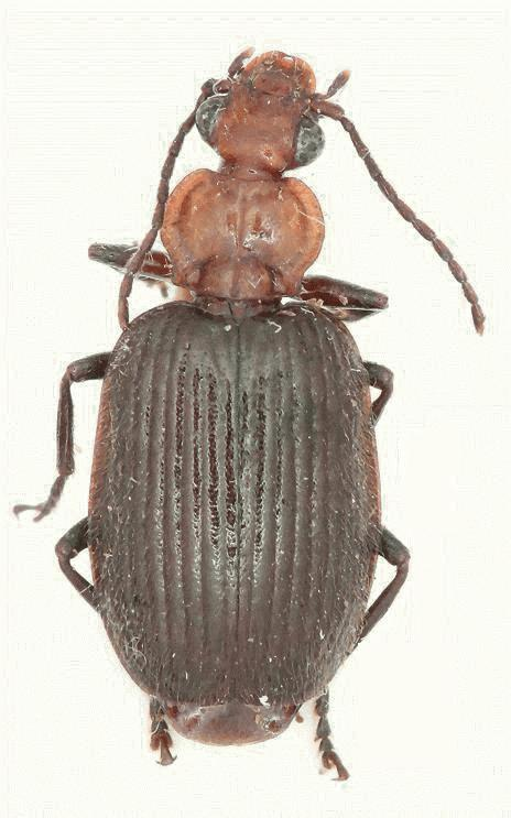 ZooKeys - Lachnoderma maindroni Cut-out from original (Lebiini type specimens - ZooKeys-284-001-g010.jpeg) shown below